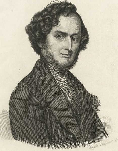 French Romantic composer Hector Berlioz (1803–1869)